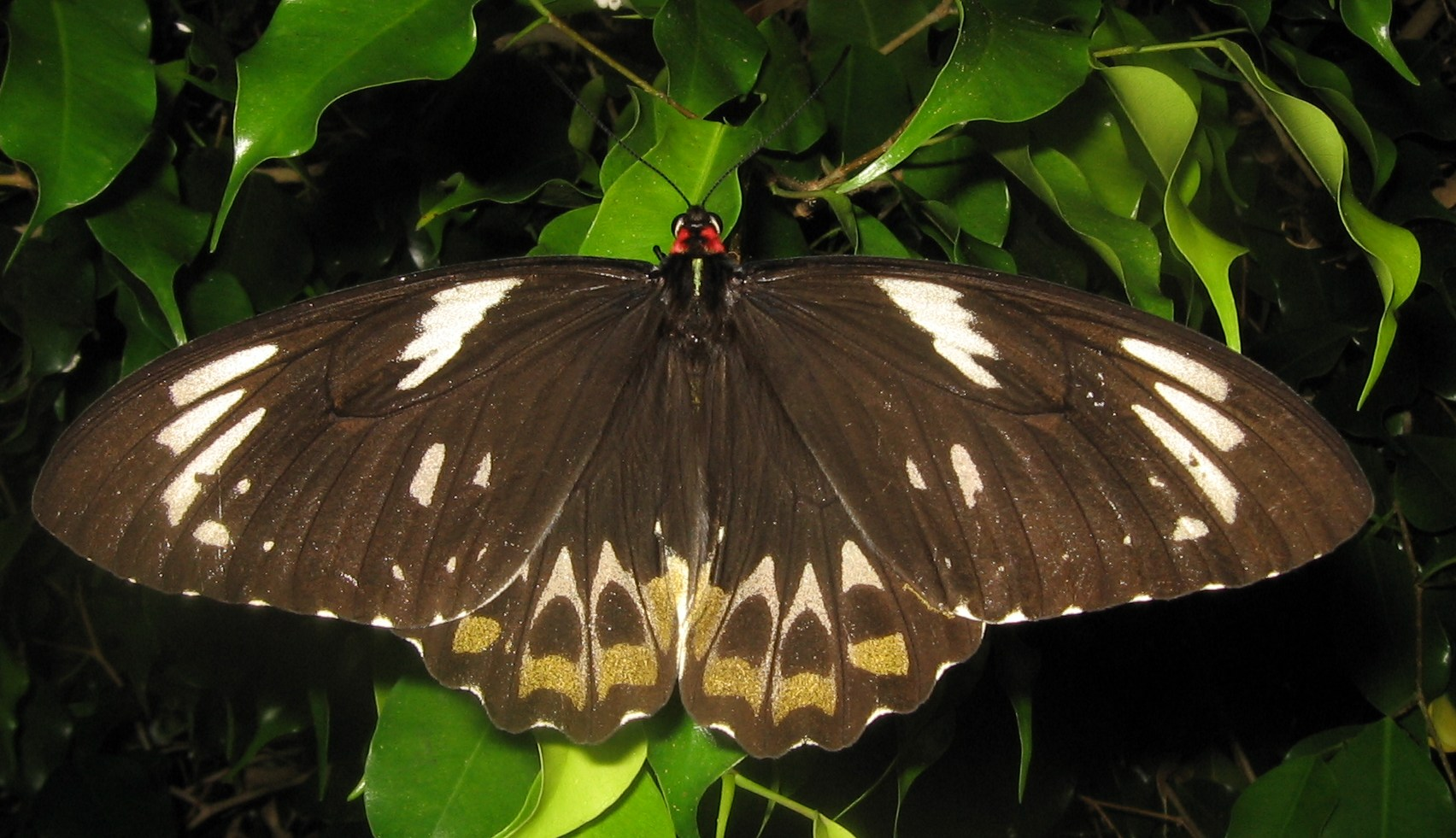 A female Cairns Birdwing (Ornithoptera euphorion) with her wings open.